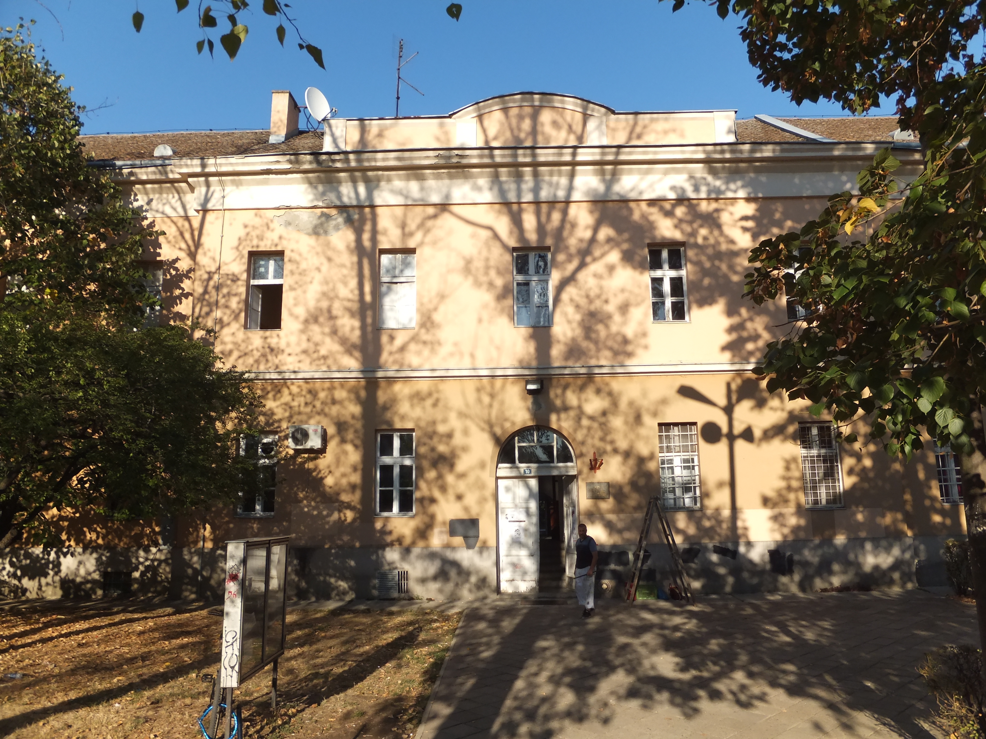 Building of Youth Center in Pancevo.